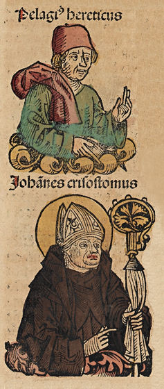 Illustration from the Nuremberg Chronicle